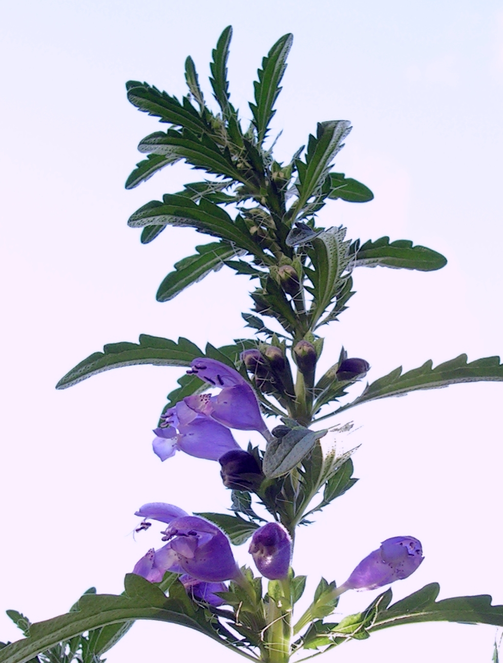 Cultivated Dracocephalum moldavica ‘Горыныч’.